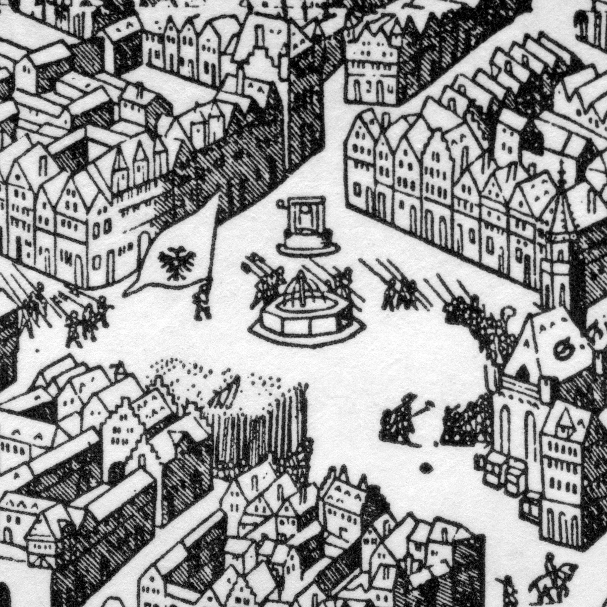 Frankfurt on the Main: Detail from the siege plan of 1552 with the Gerechtigkeitsbrunnen (Fountain of Justice) upon the Römerberg